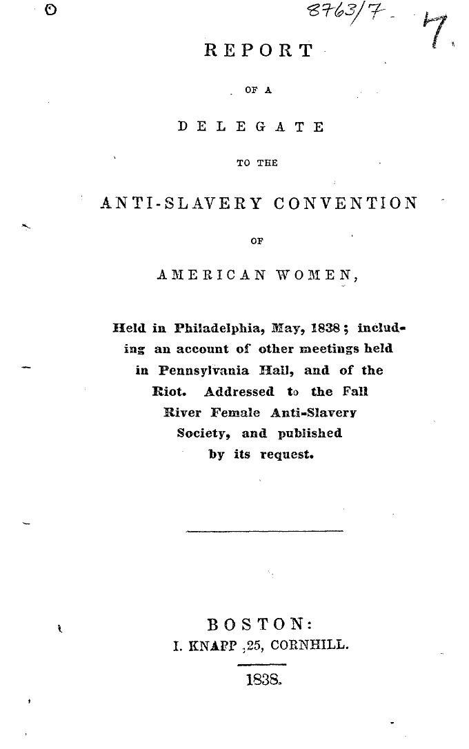 See Isaac Knapp and Abolitionism in the United States